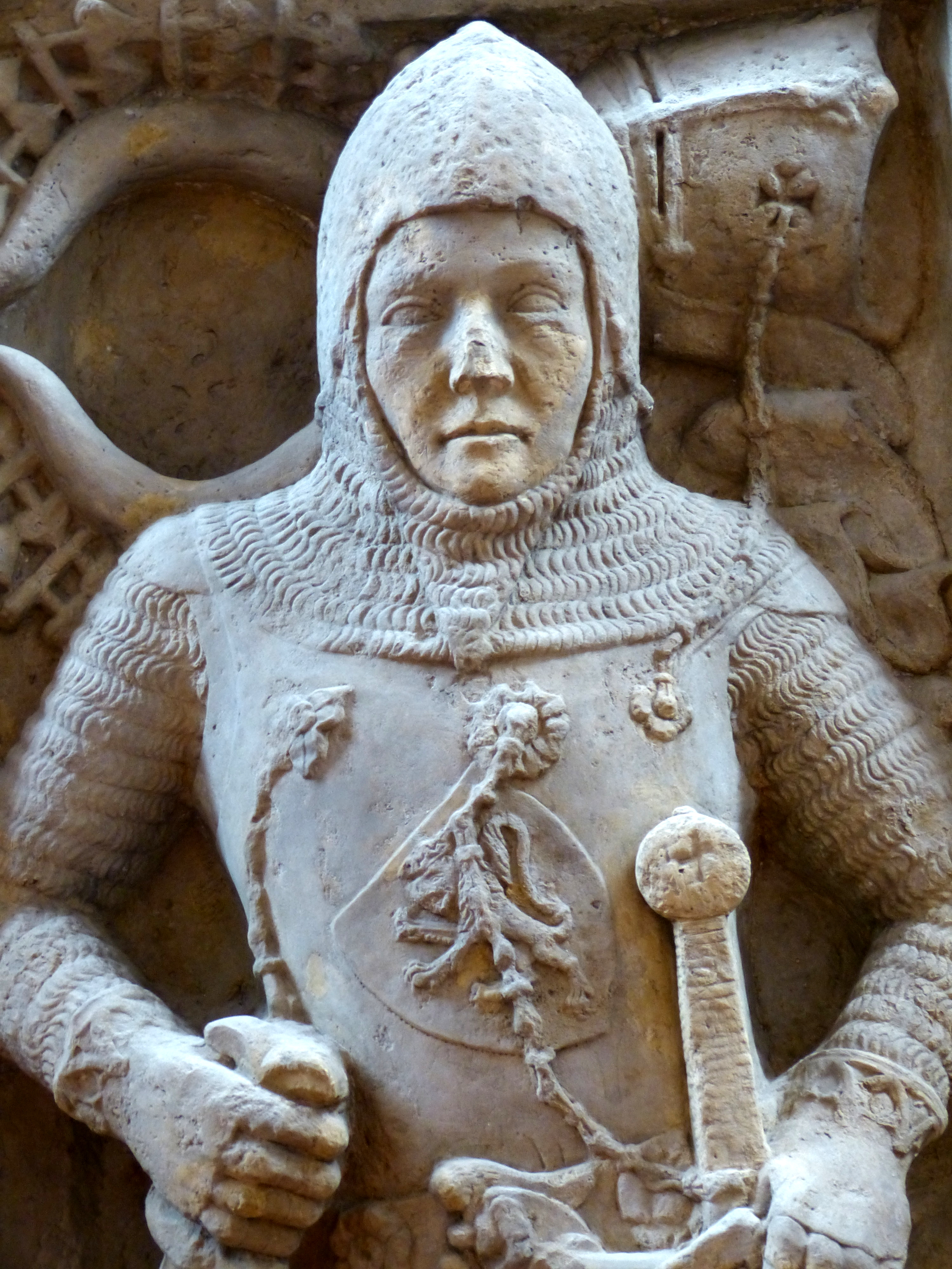 Eisenach ( Thuringia ). Saint George parish church - Grave monument (ca. 1300) for count Louis II of Thuringia ( + 1172 ).